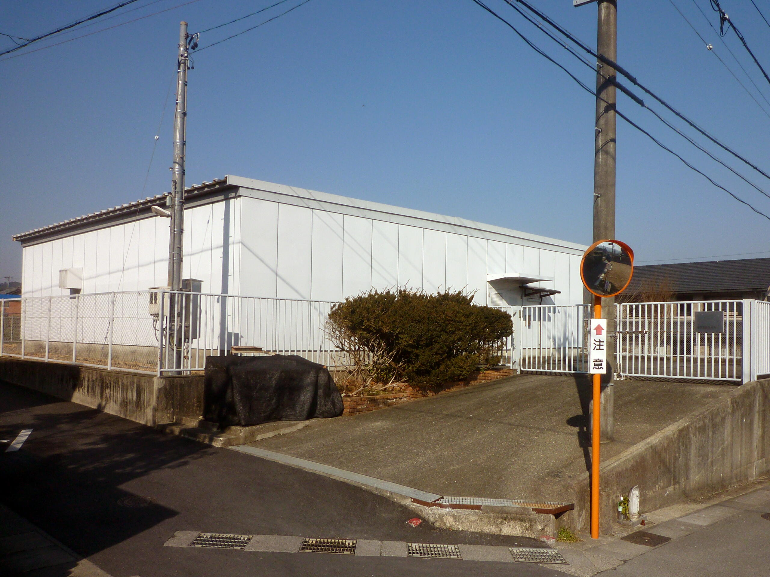 The "NTT Tochihara Telephone Exchange Building" in Shinden, Ōdai Town, Taki District, Mie Prefecture, Japan.